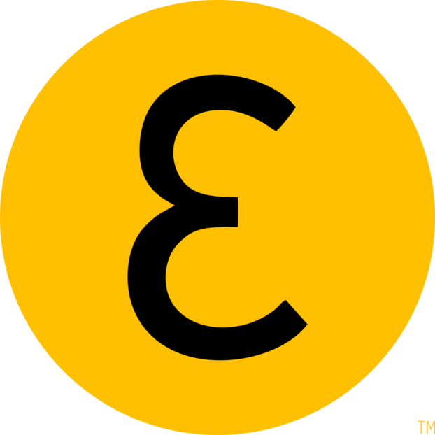 Eva - Logo TM